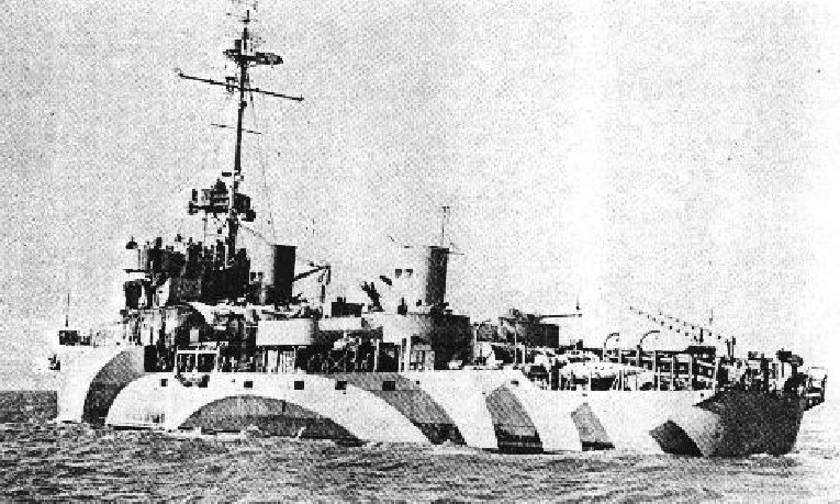 USS Ardent (AM 340) off the coast of San Francisco, California.